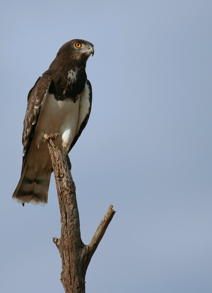 Black chested snake eagle, Circaetus pectoralis. Taken near Lake Manyara, Tanzania.